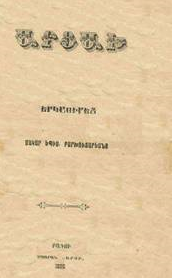 Title page of the book «Artsakh» by bishop Makar Barkhudaryants (1895, Baku)